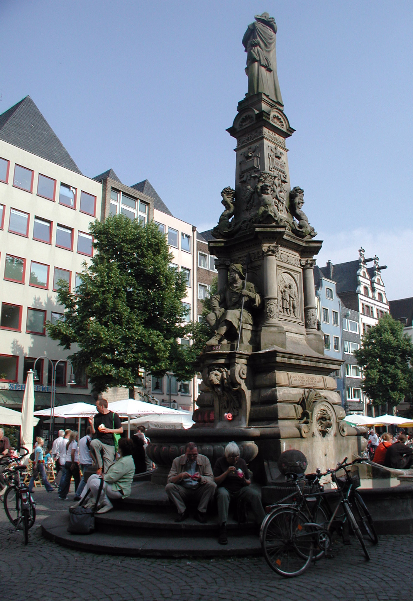 Cologne - fountain Jan von Werth, Alter Markt